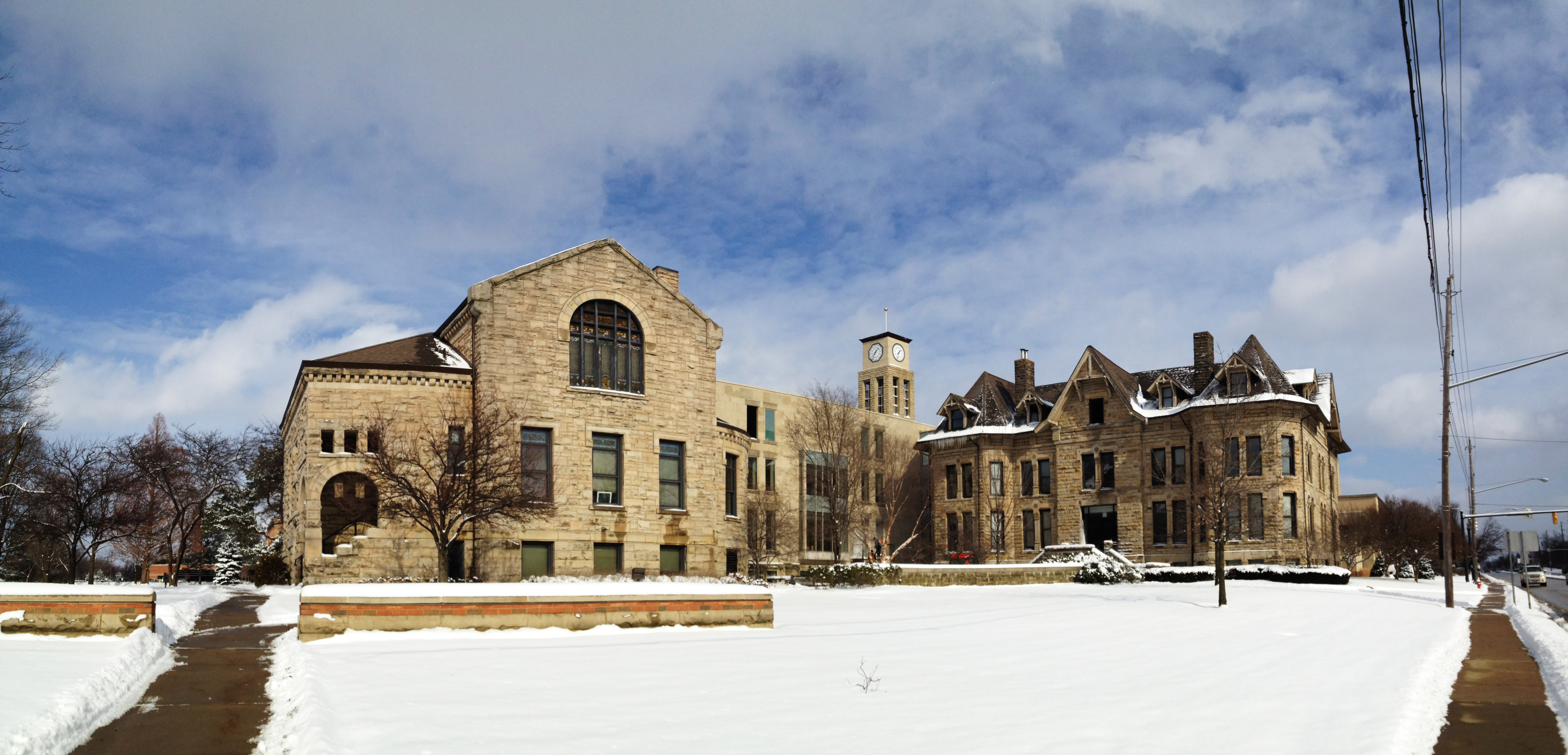 Malicky Hall which includes Baldwin Library, Carnegie Hall and the Malicky expansion which connected the buildings and added new academic spaces